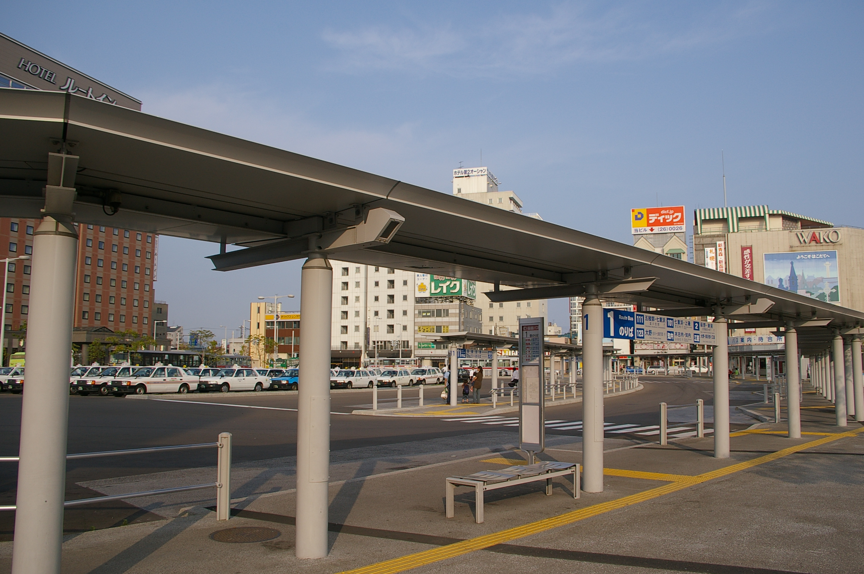 Photograph of Hakodate Station Bus Terminal in front of JR Hakodate Station, Hakodate, Hokkaido, Japan.